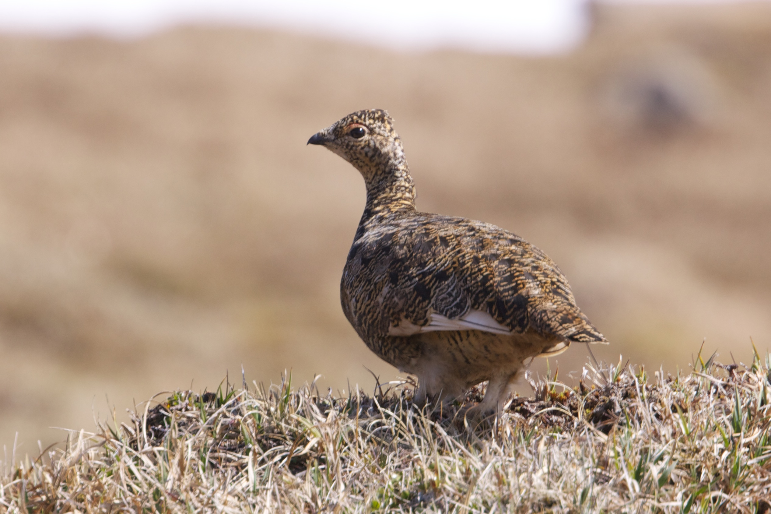 Rock Ptarmigan (Lagopus muta) in Summer plumage. Photo taken on Snaefellsnes, Iceland